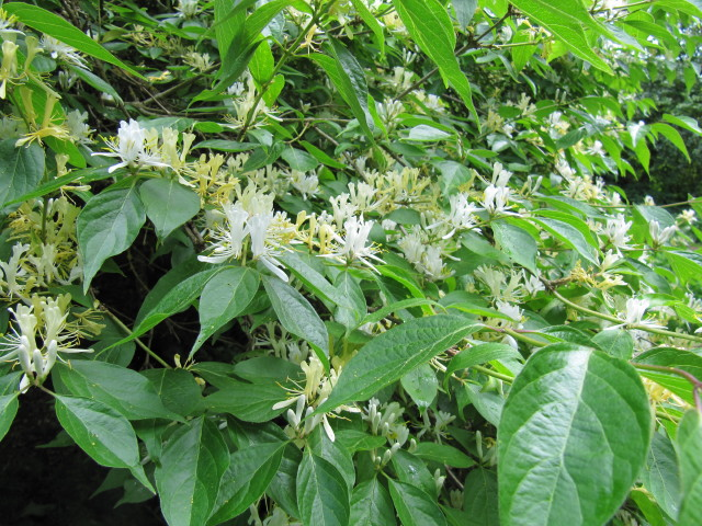 Lonicera maackii (Amur Honeysuckle or Bush Honeysuckle) is a species of honeysuckle in the family Caprifoliaceae, native to temperate Asia in northern and western China (south to Yunnan), Mongolia, Japan (central and northern Honshū, rare), Korea, and southeastern Russia (Primorsky Krai).